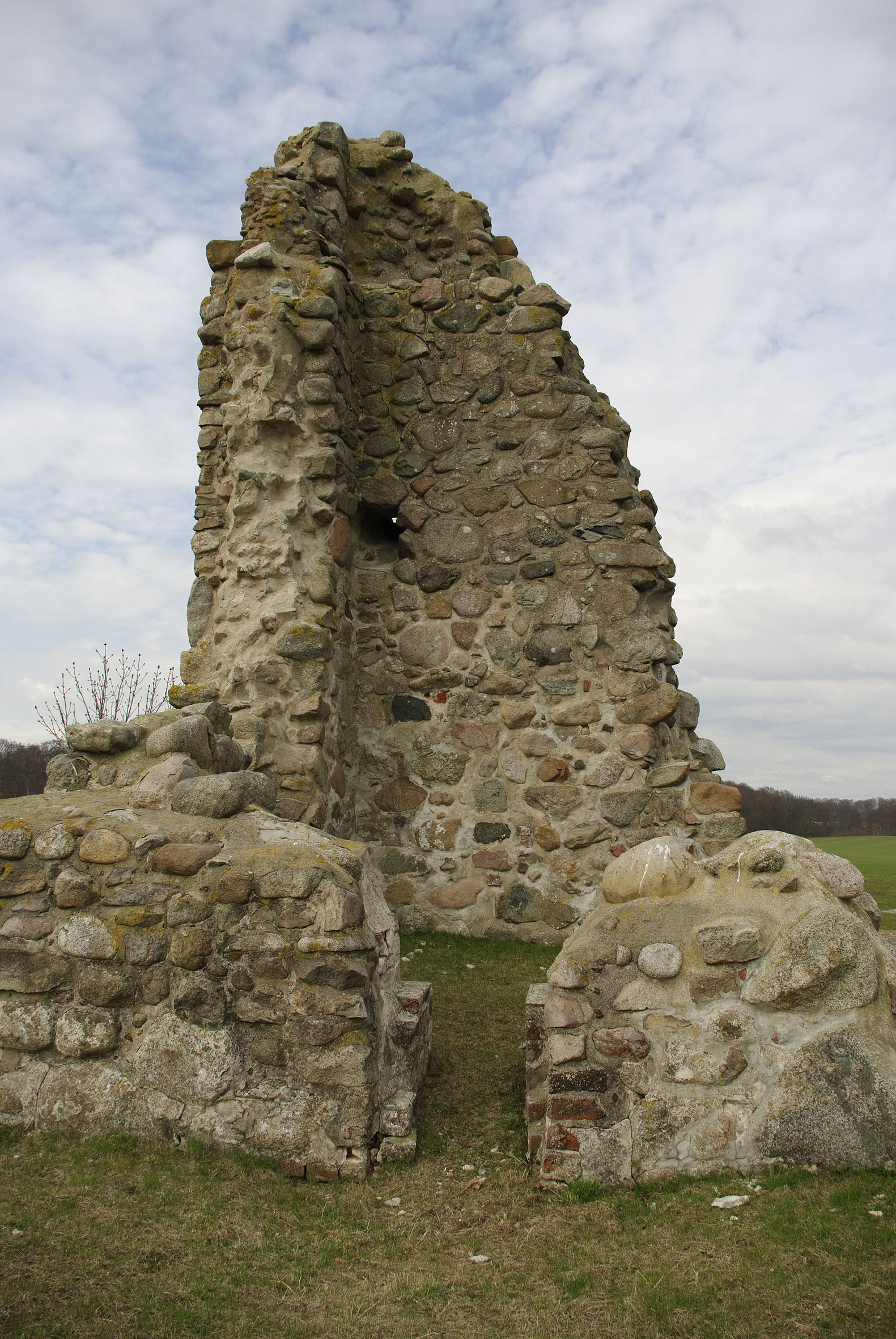 The ruin of the church of Lemmeströ in Scania, Sweden.